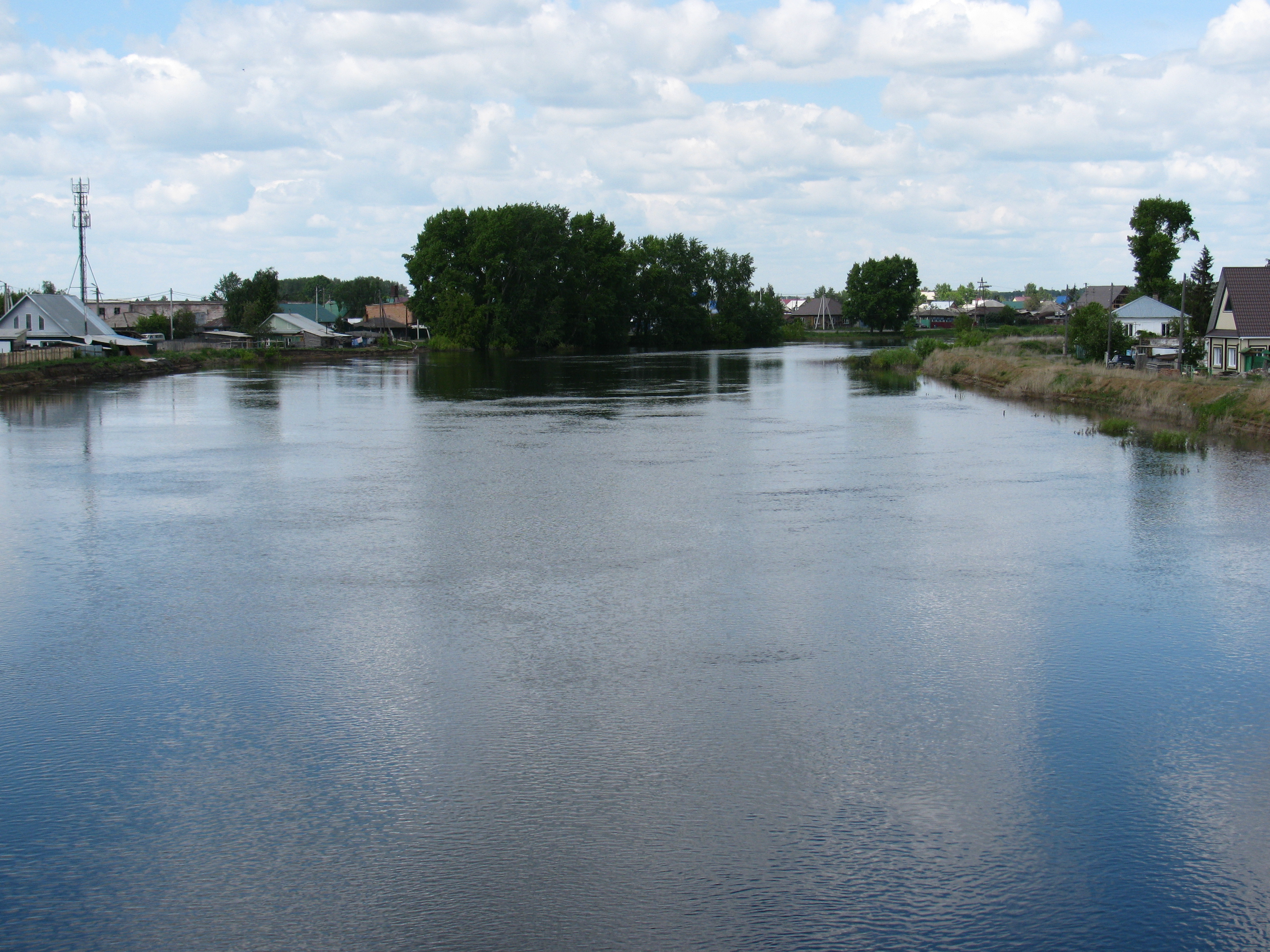 View from new city's bridge - Moshnino (area of Kuybyshev). 2015 spring`s rise of water